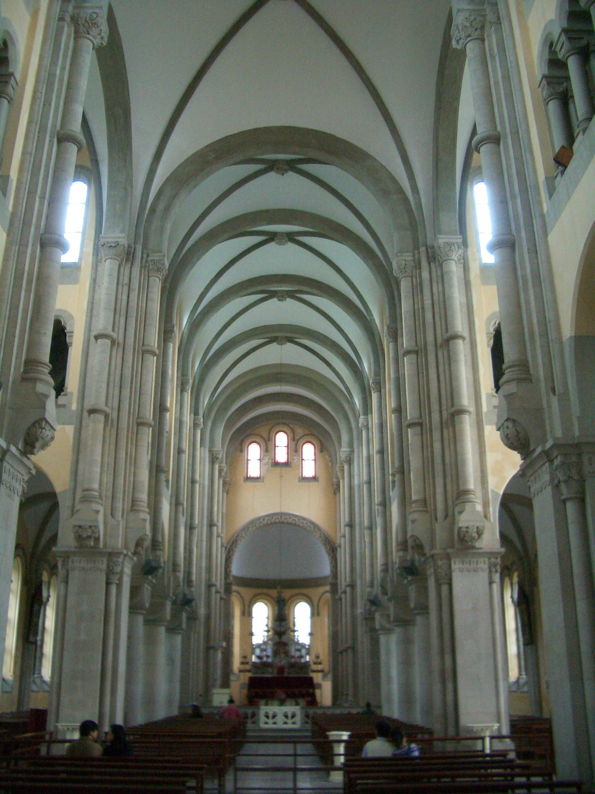 Nave of She Shan Basilica, Shanghai.